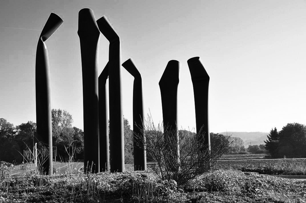 Installation "Communication", Public Space, Lorsch, Germany, 2009